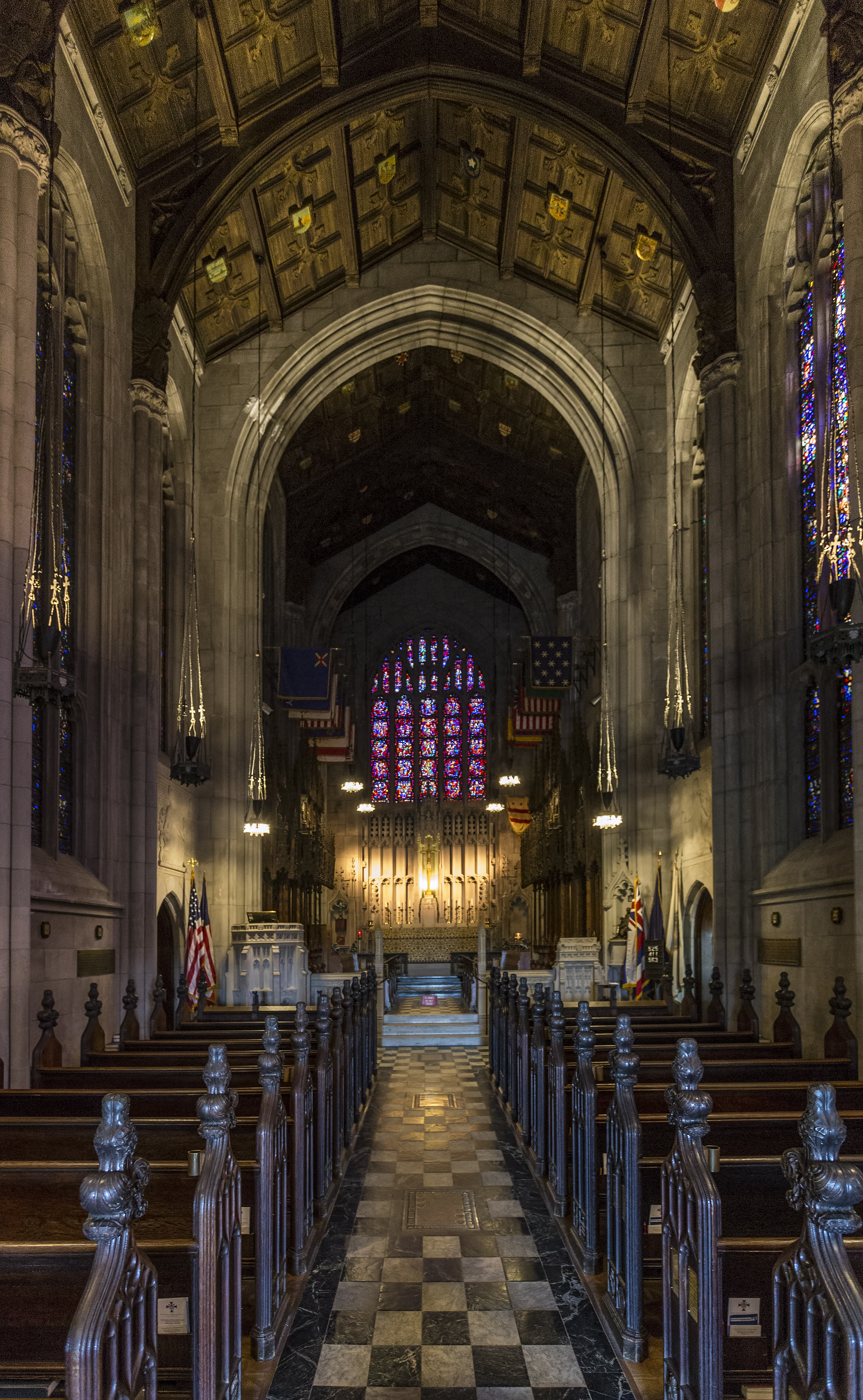 The interior of the Washington Memorial Chapel, Valley Forge, Pennsylvania, USA